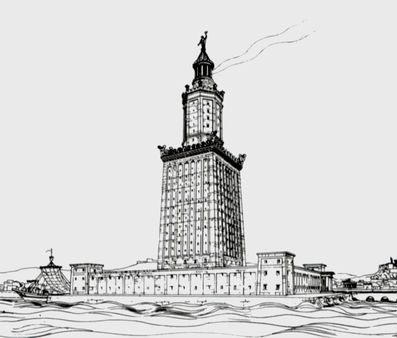 A drawing of the Pharos of Alexandria by German archaeologist Prof. H. Thiersch (1909).